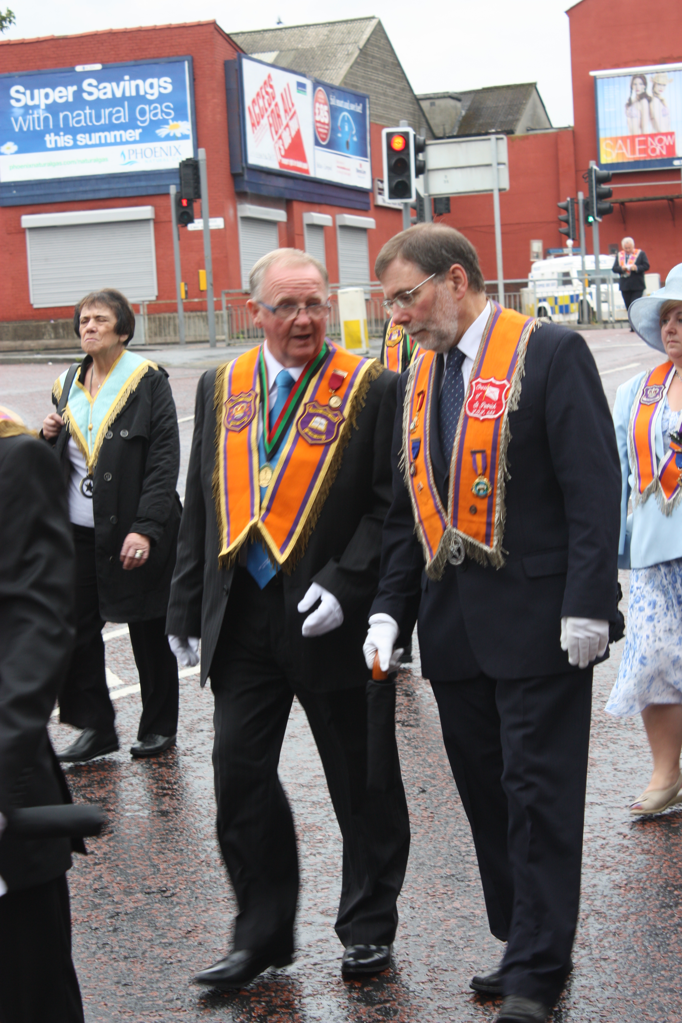 Nelson McCausland (on right), Minister for Social Development, 12 July Orange Parades, Donegall Street, Belfast, Northern Ireland, July 2011